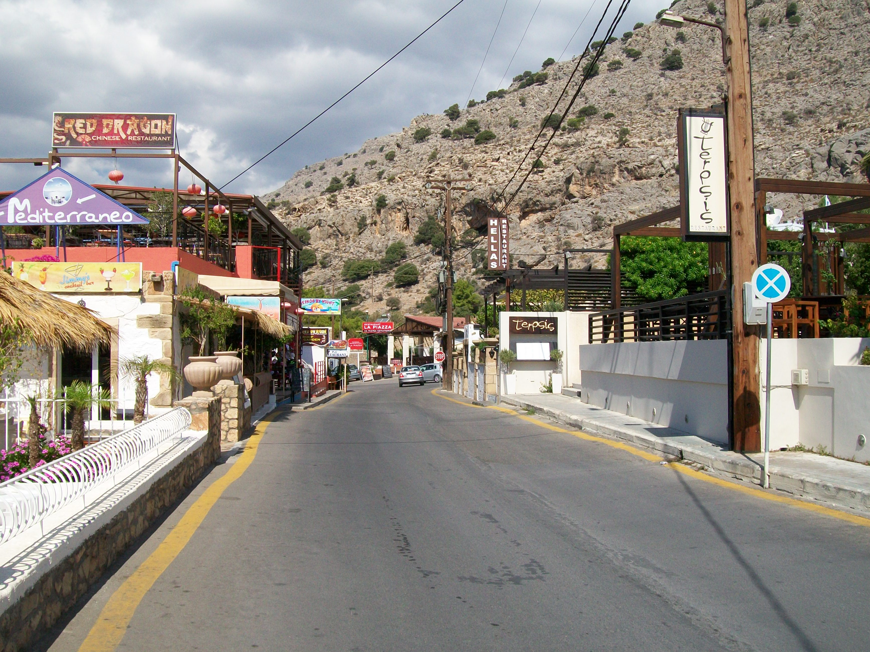 Street of the village Pefkos (Rhodes)